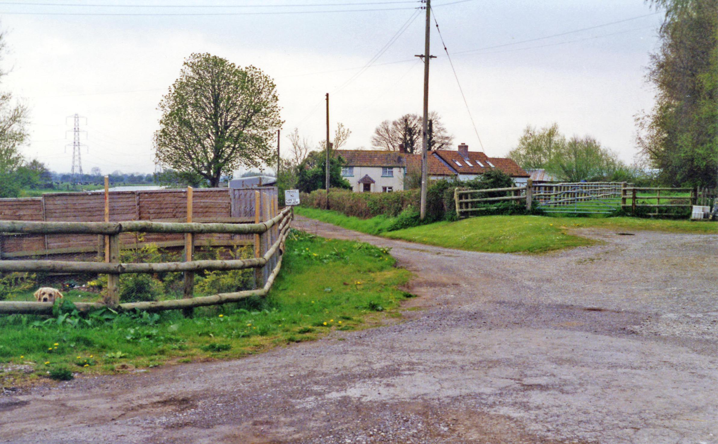 Site of former Edington & Burtle station, 1995. View westward, towards Highbridge and Burnham-on-Sea, also Bridgwater North until the branch closed 8/9/53: S&D Joint Railway Evercreech Junction - Burnham line, closed entirely 7/3/66. The station was named Edington Junction until 30/11/52.